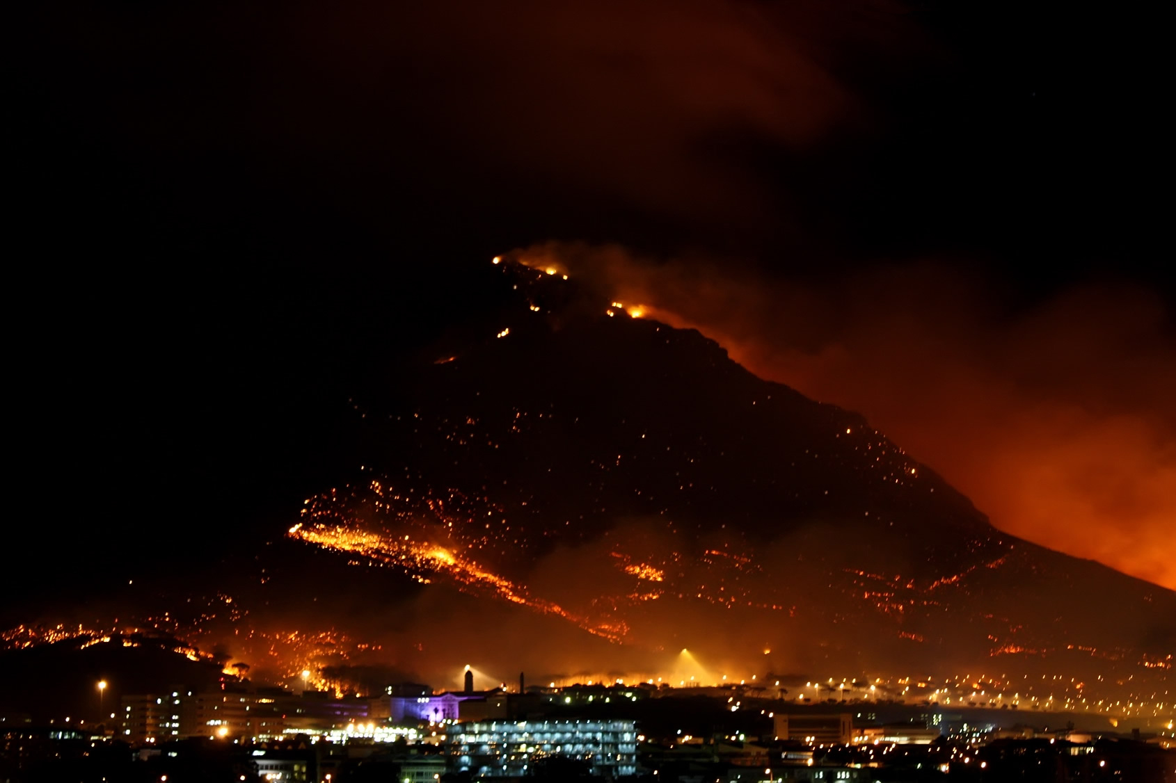 Orientation: Facing Devil's Peak, looking over Observatory with the CBD on the right. Photo shot from M5 Black River Parkway, Maitland. A fierce south-easterly wind was hampering firefighter efforts to bring a fire on Devil's Peak under control late on Tuesday night. The fire broke out when vegetation below Rhodes Memorial caught alight at around 8:30pm. By midnight the whole of Devil's Peak was ablaze; by 2am the flames had spread around the side of the peak and were threatening the suburbs of Walmer Estate and Vredehoek where residents were being evacuated and roads were closed to traffic.